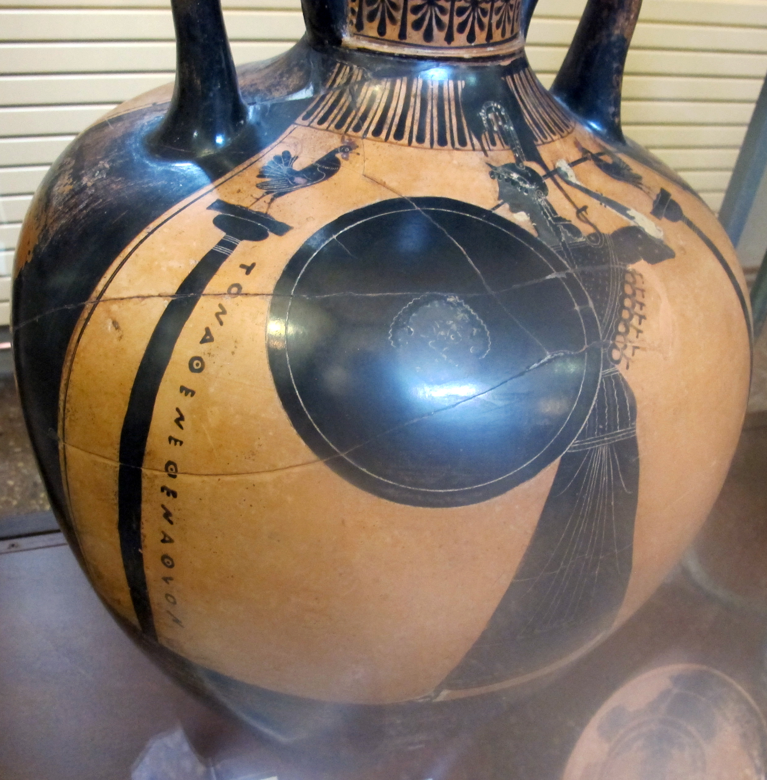 Ancient Greek pottery in the Archeological Museum of Bologna